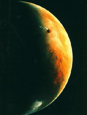 This crescent phase picture of Mars was taken by Viking 2 on August 5 from a distance of about 400,000 kilometers (250,000 miles) as it was approaching the planet for its orbit insertion maneuver. Viking 2 went into orbit around the planet at 5:30 A.M., PDT today. The view is of the morning side. Toward the top of the picture, the four dark spots are the huge volcanoes of the Tharsis region. They appear dark partly because clouds and haze cover this region at this time of day, and the volcanoes stand higher than the clouds. In the bottom part of the picture, at the tip of the crescent, is a bright circular feature, the large impact basin, Argyre. This basin shows up brightly because its floor is covered with frost.